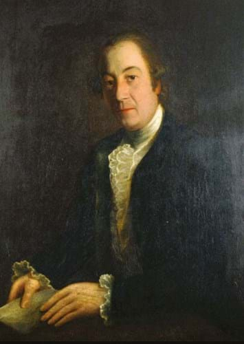 Portrait of John Knill (1733–1811), British official.